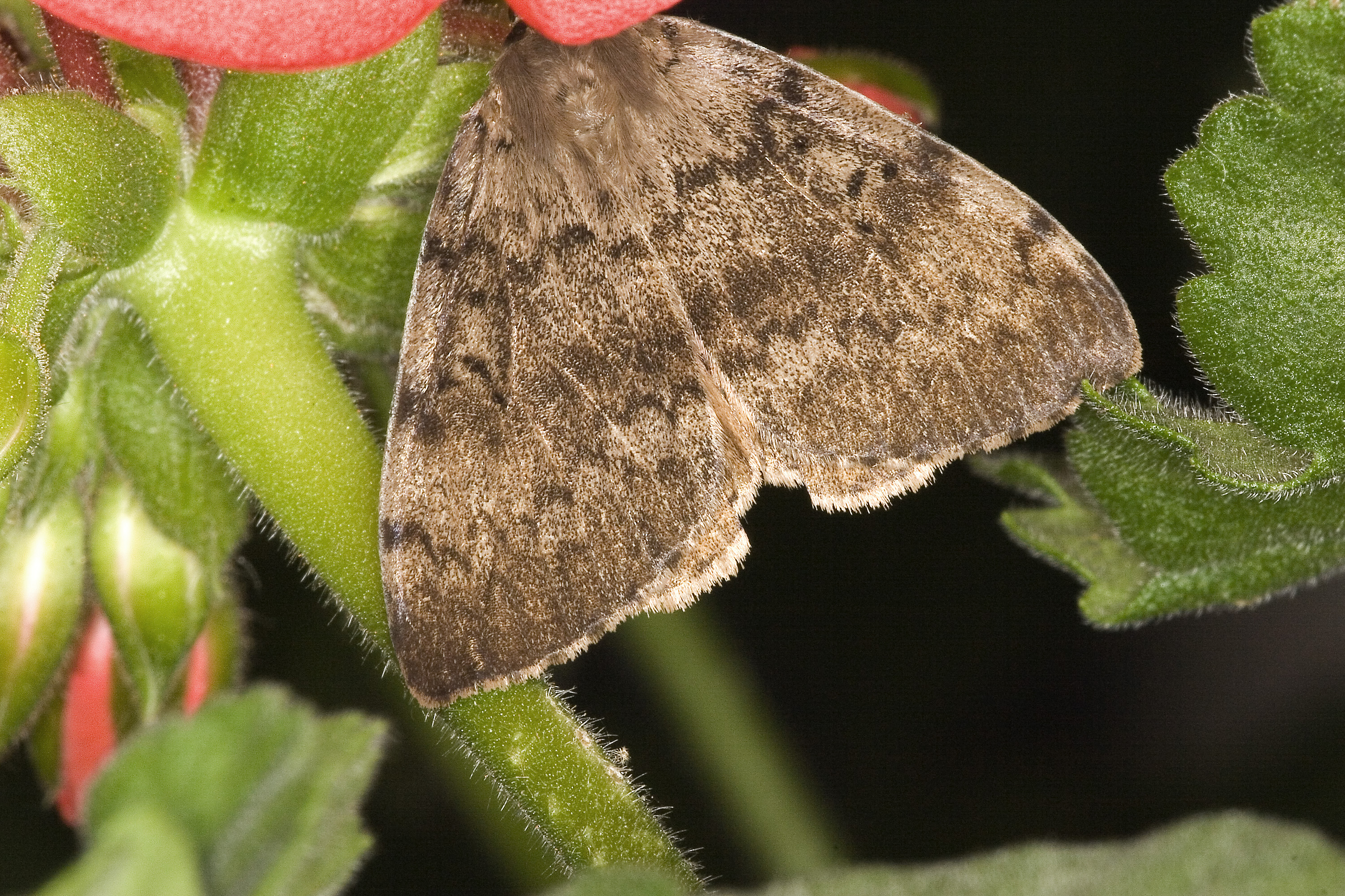 Schwammspinner